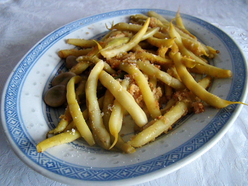 Wax bean serve with melted butter and fried crumbs (on the left side broad beans)